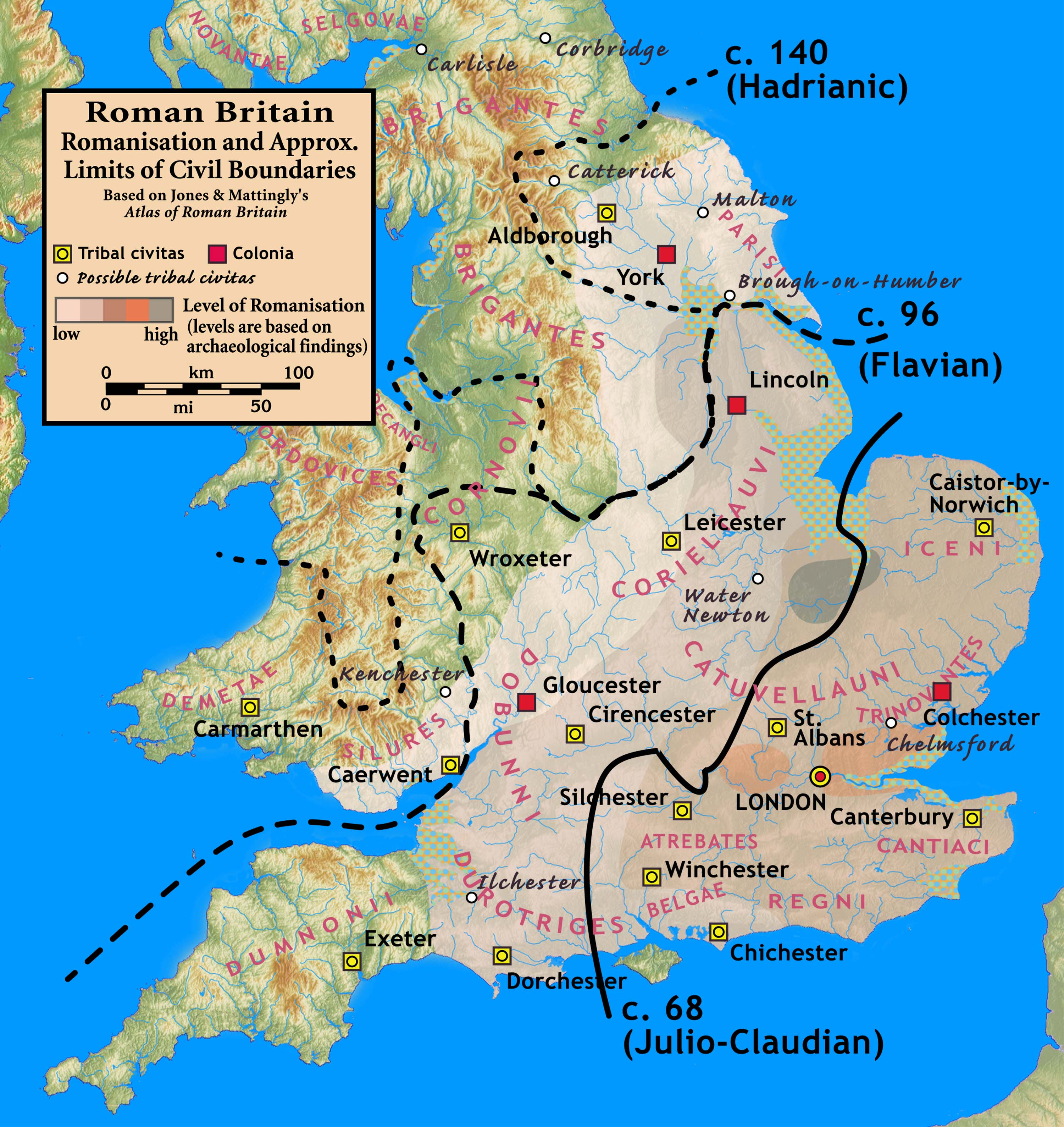 Roman Britain — Levels of Romanisation and Approximate Limits of Civil Boundaries